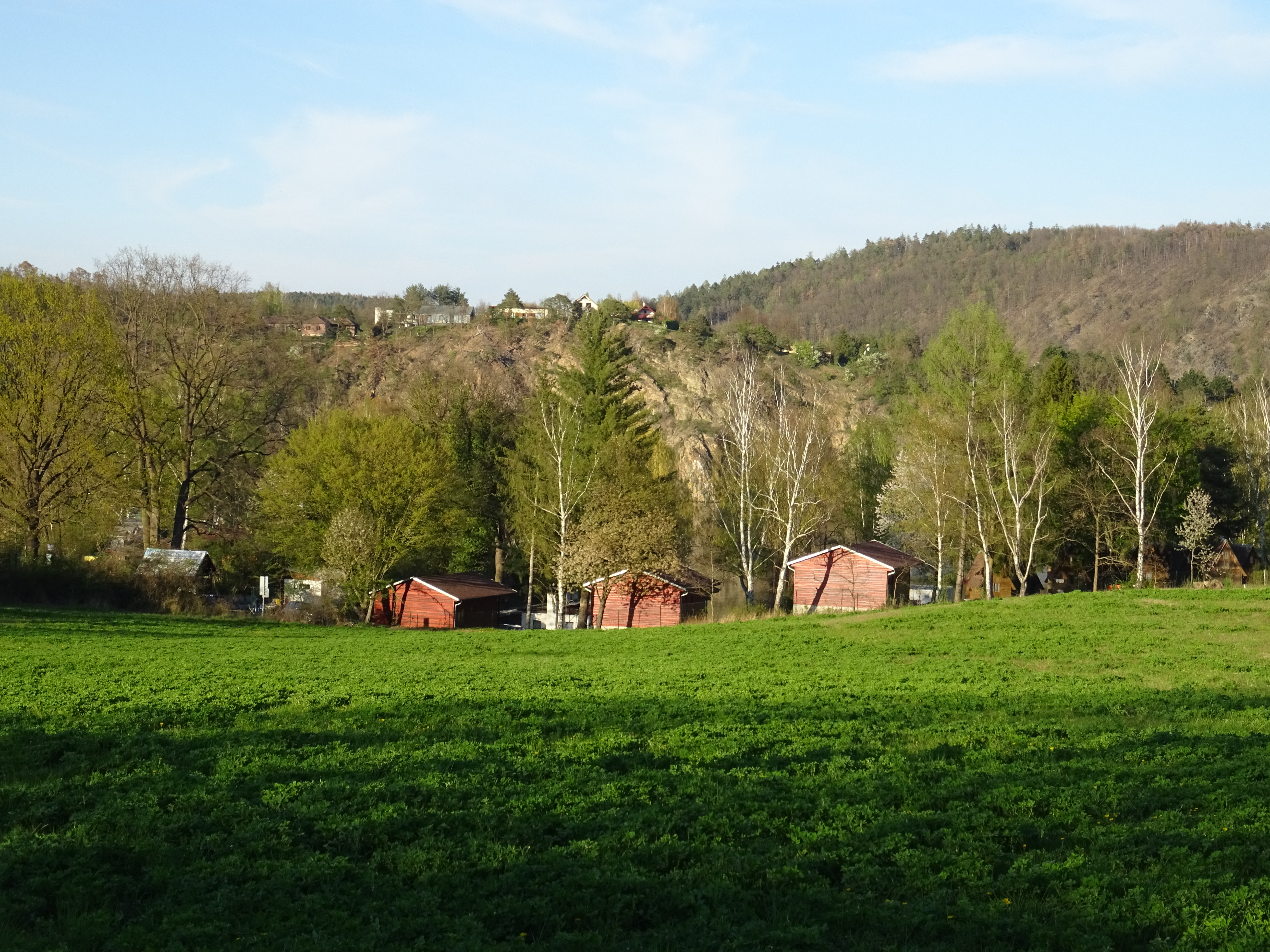 This photograph was created as a part of Wikiexpedition Mladá Vožice, a project supported by Wikimedia Foundation grant.